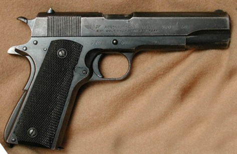 Sistema colt de Aeronautica pavoanda original